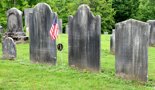 B. Simonds gravesite.